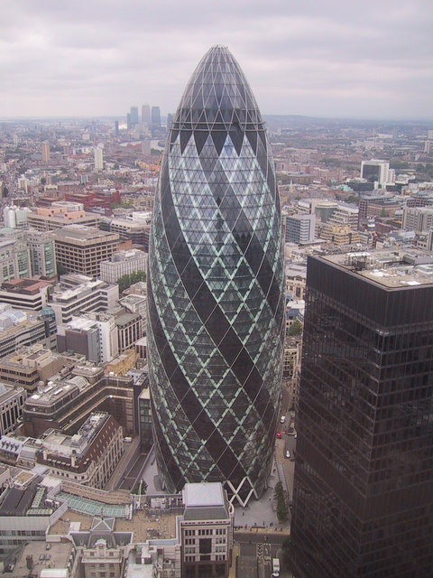 30 St Mary Axe (The Gherkin) 30 St Mary Axe, more commonly known as 'The Gherkin', seen from an adjoining building and giving a very different perspective on the subject.